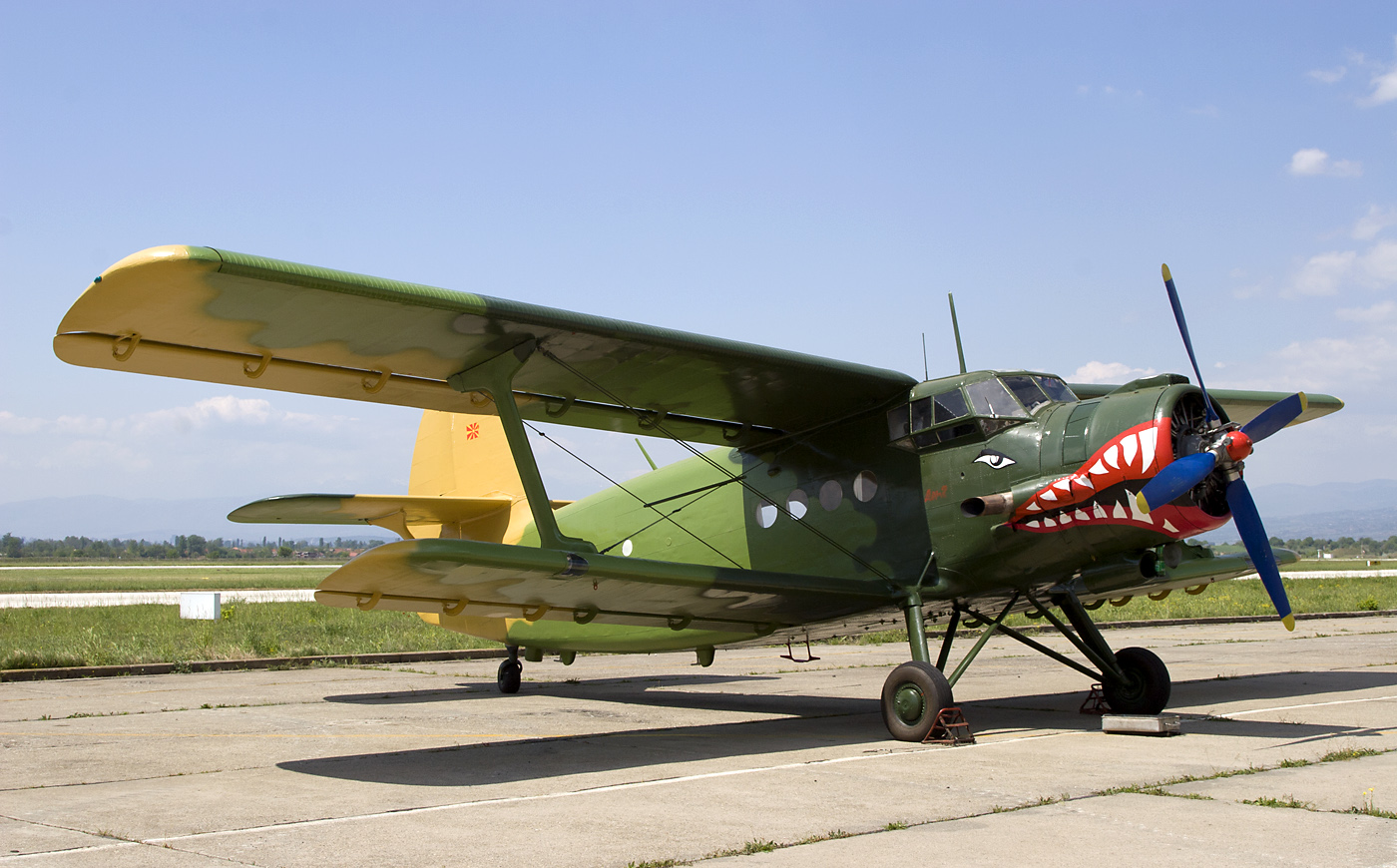 The only transport plane of the Macedonian Air Force in 2007.